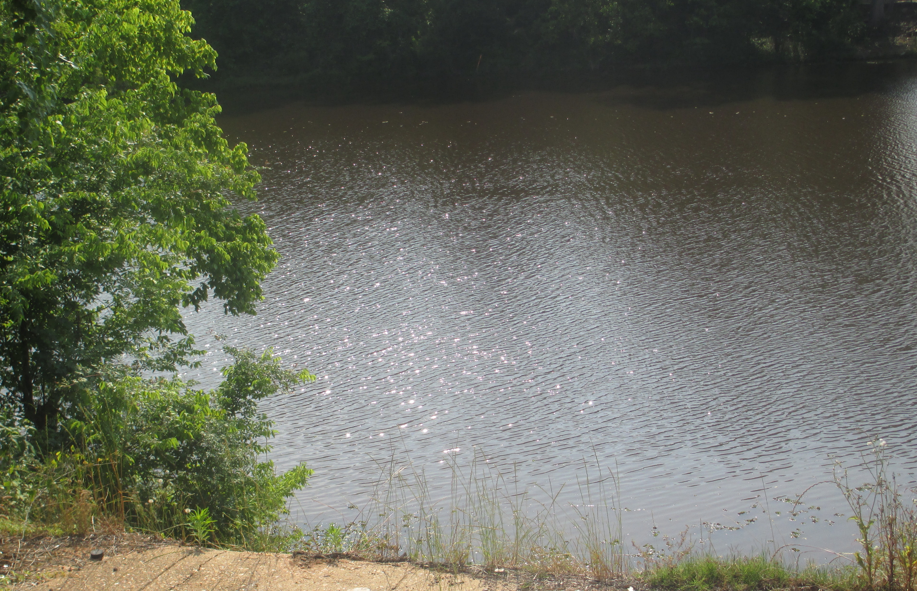 I took photo with Canon camera of Saline Bayou in Winn and Natchitoches parishes, LA.